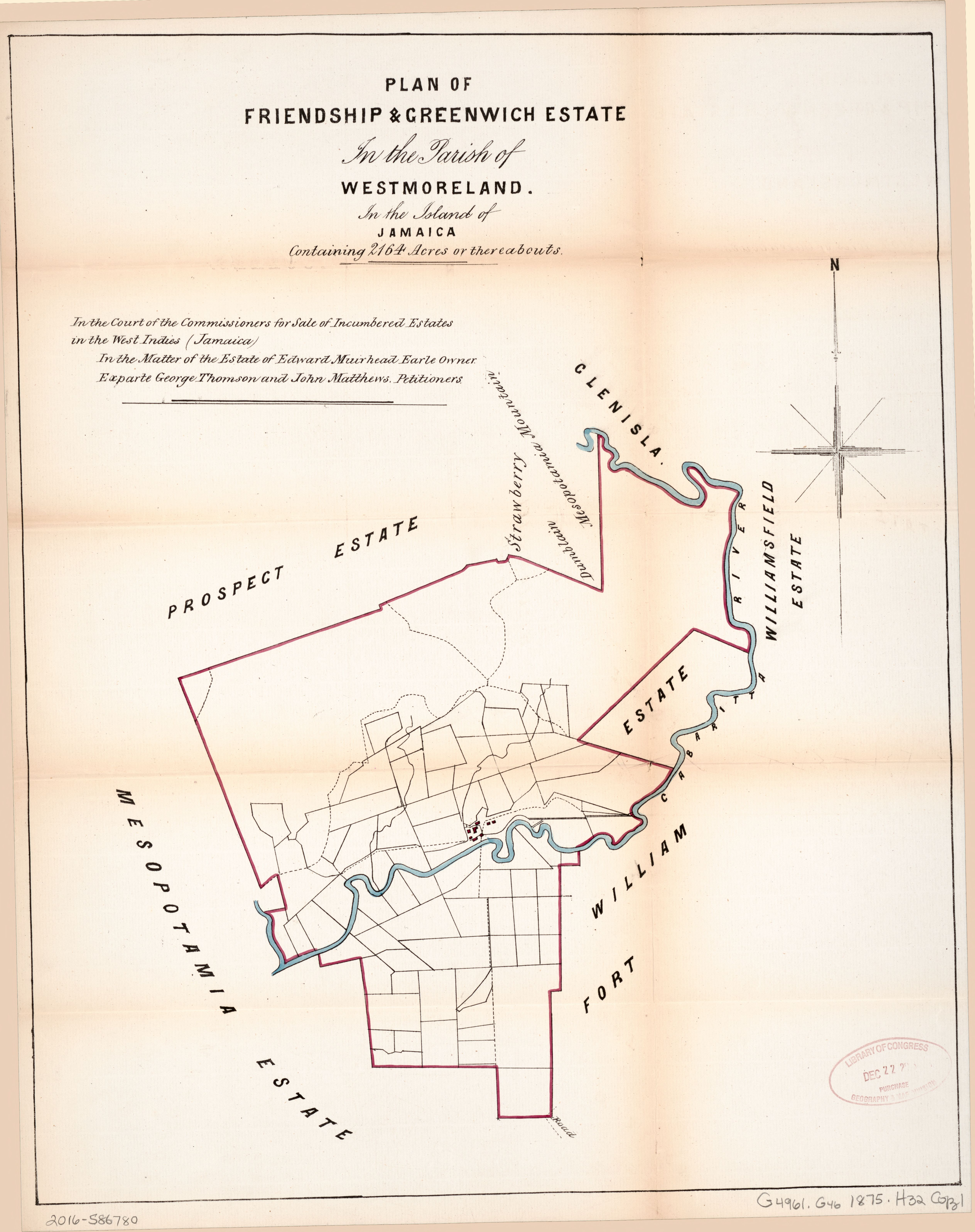 Title from accompanying text. "In the matter of the Estate of Edward Muirhead Earle, owner. Ex parte George Thomson and John Matthews, petitioners." "Sale on Wednesday, the 5th day of May, 1875." Accompanied by text: In the Court of the Commissioners for Sale of Incumbered Estates in the West Indies, Jamaica. ([4] unnumbered pages : cadastral data, annotations ; 44 cm, folded to 28 x 11 cm). "The Auction Mart, Tokenhouse Yard, Lothbury, in the city of London, on Wednesday, the 5th day of May, 1875, at one o'clock precisely. The purchaser will have an indefeasible Parliamentary Title under the Seal of the Court." Copy imperfect: Use-worn, torn along fold lines. Available also through the Library of Congress Web site as a raster image.